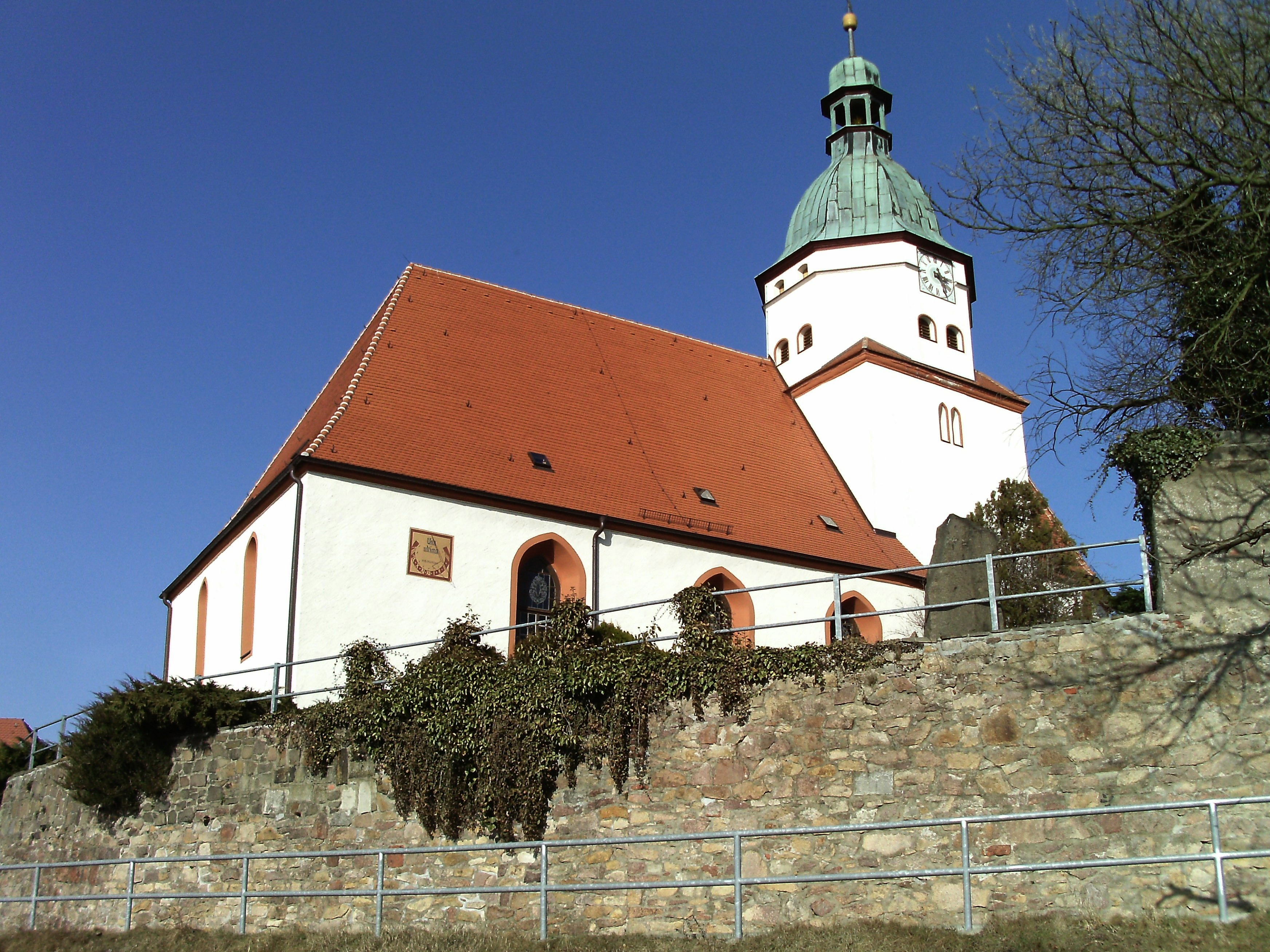 Döben church (Grimma, Leipzig district, Saxony)